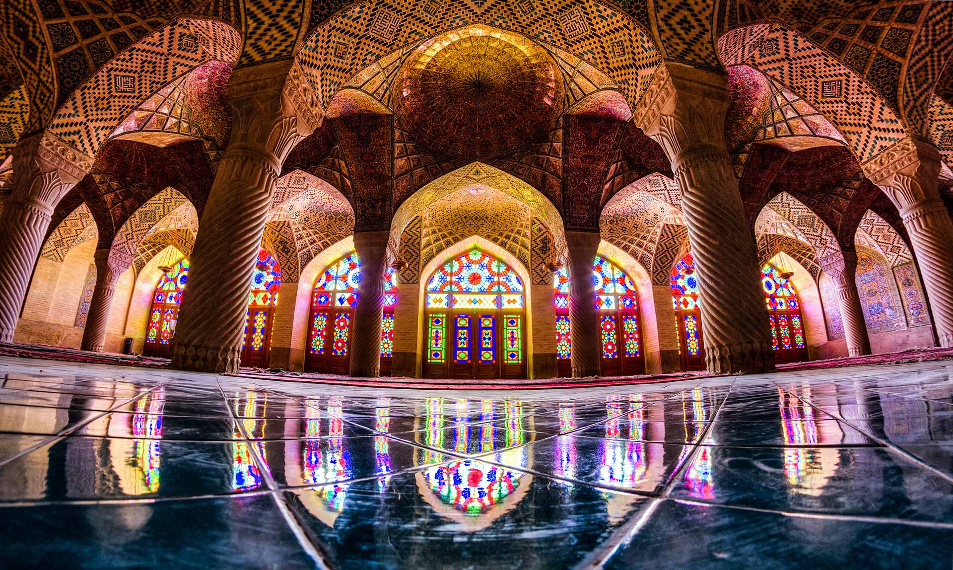 Inside Nasir ol Molk Mosque, Shiraz City, Iran